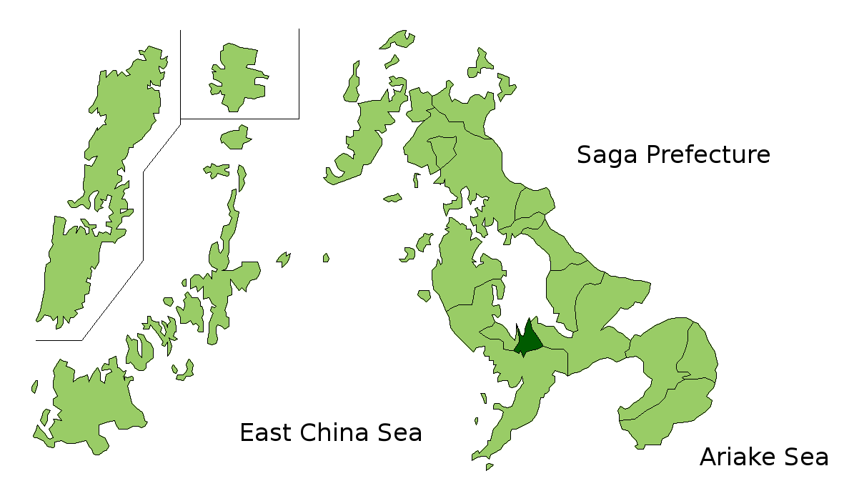 The location of Nagayo in Nagasaki Prefectuur, Japan